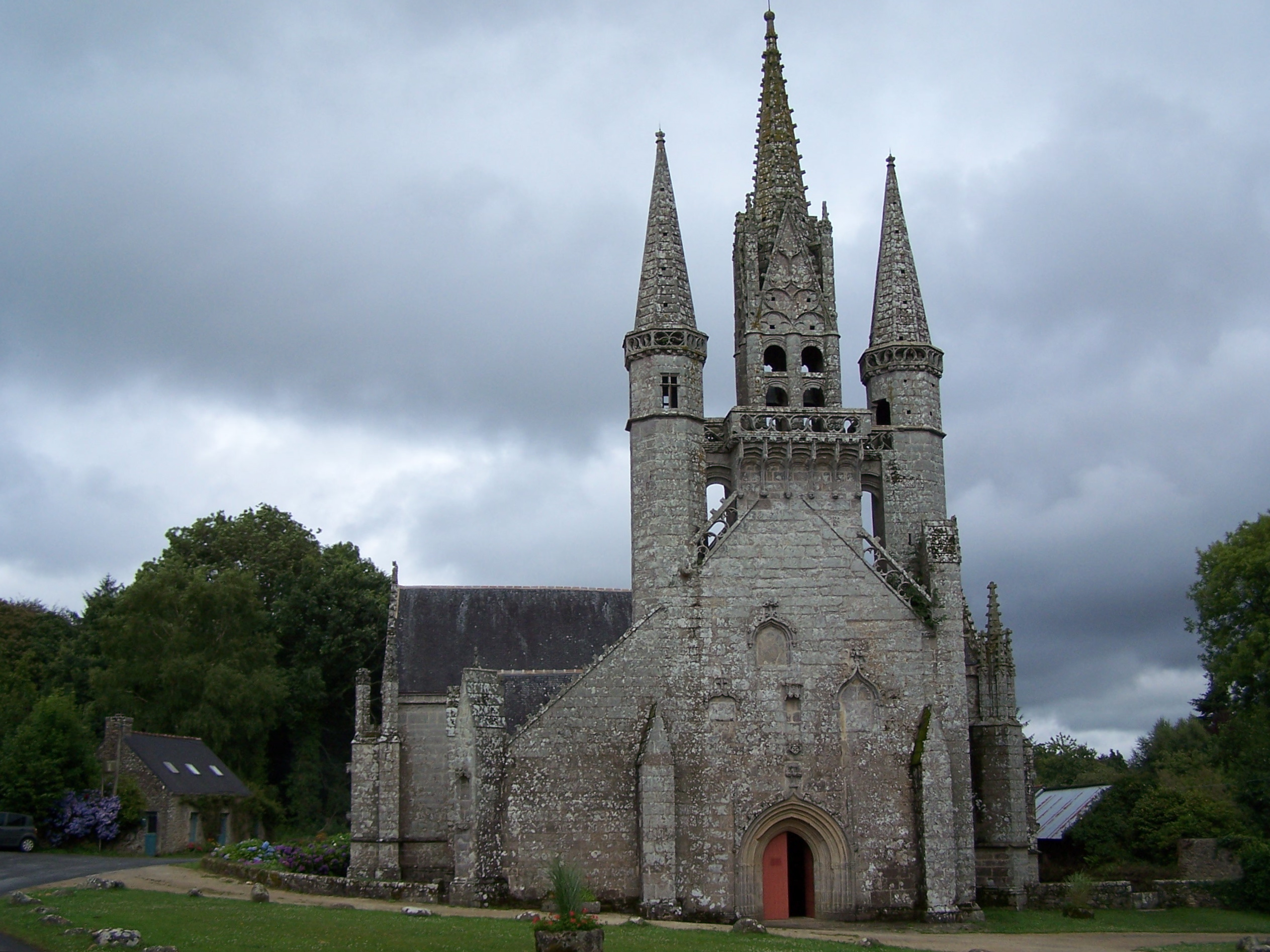 Chapelle Saint-Fiacre of Le Faouët